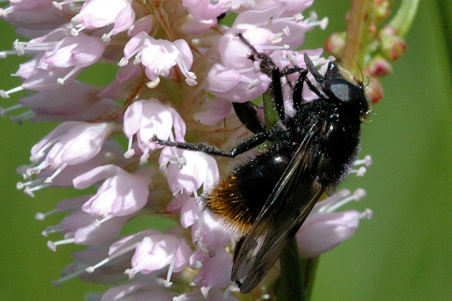 Volucella bombylans from Commanster, Belgian High Ardennes .